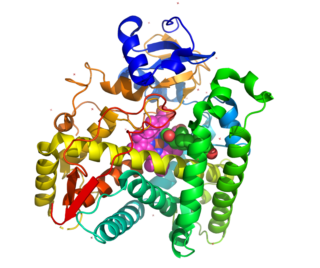 Protein structure of 21-Hydroxylase: 3 subunits, each with heme group bound in center